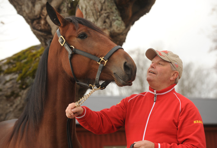 Roger Walmann and trotter Tamla Celeber.